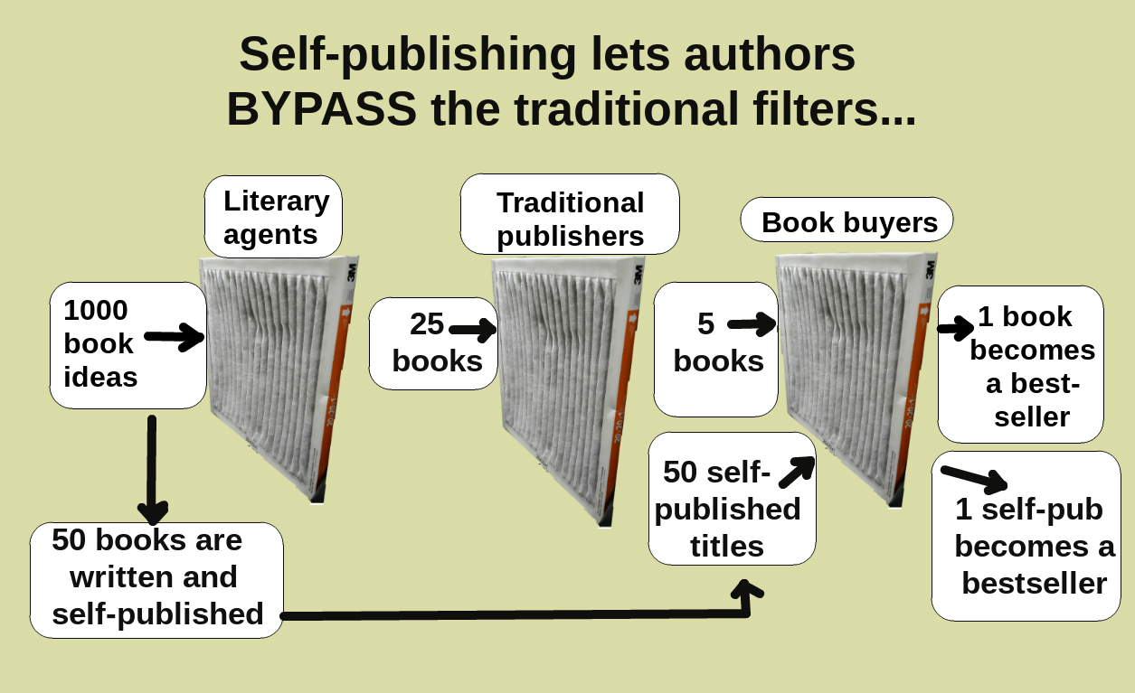 A chart showing how authors can bypass established agents and publishers (the filters) and bring their creations directly to book buyers who are, in effect, the ultimate deciders on the success of a book.